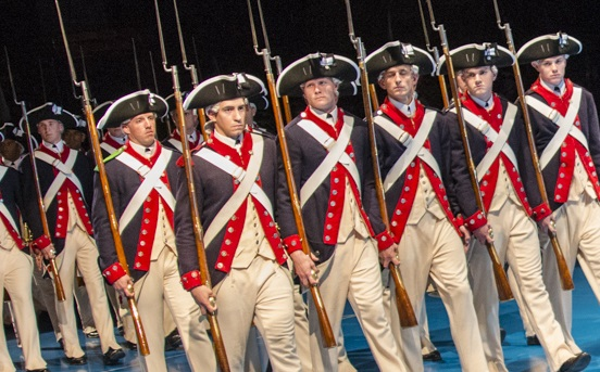 U.S. soldiers with the 3rd U.S. Infantry Regiment (The Old Guard) conduct a march in review Aug. 16, 2013, during a retirement ceremony in honor of Lt. Gen. Dana K. Chipman, the judge advocate general of the Army, hosted by Chairman of the Joint Chiefs of Staff Army Gen. Martin E. Dempsey in Conmy Hall at Joint Base Myer-Henderson Hall, Va. (DOD photo by Staff Sgt. Sean K. Harp, U.S. Army/Released)